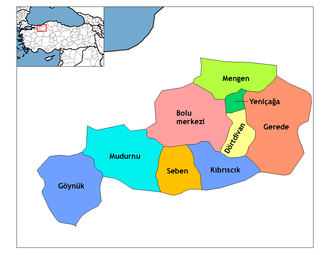 Map of the districts of Bolu province in Turkey. Created by Rarelibra 18:57, 1 December 2006 (UTC) for public domain use, using MapInfo Professional v8.5 and various mapping resources. Edited by One Homo Sapiens Corrected text where İ,Ş,ı,ğ,or ş occurs in name. Source: [statoids-com]. Increased font size and enhanced color differences among adjacent districts.